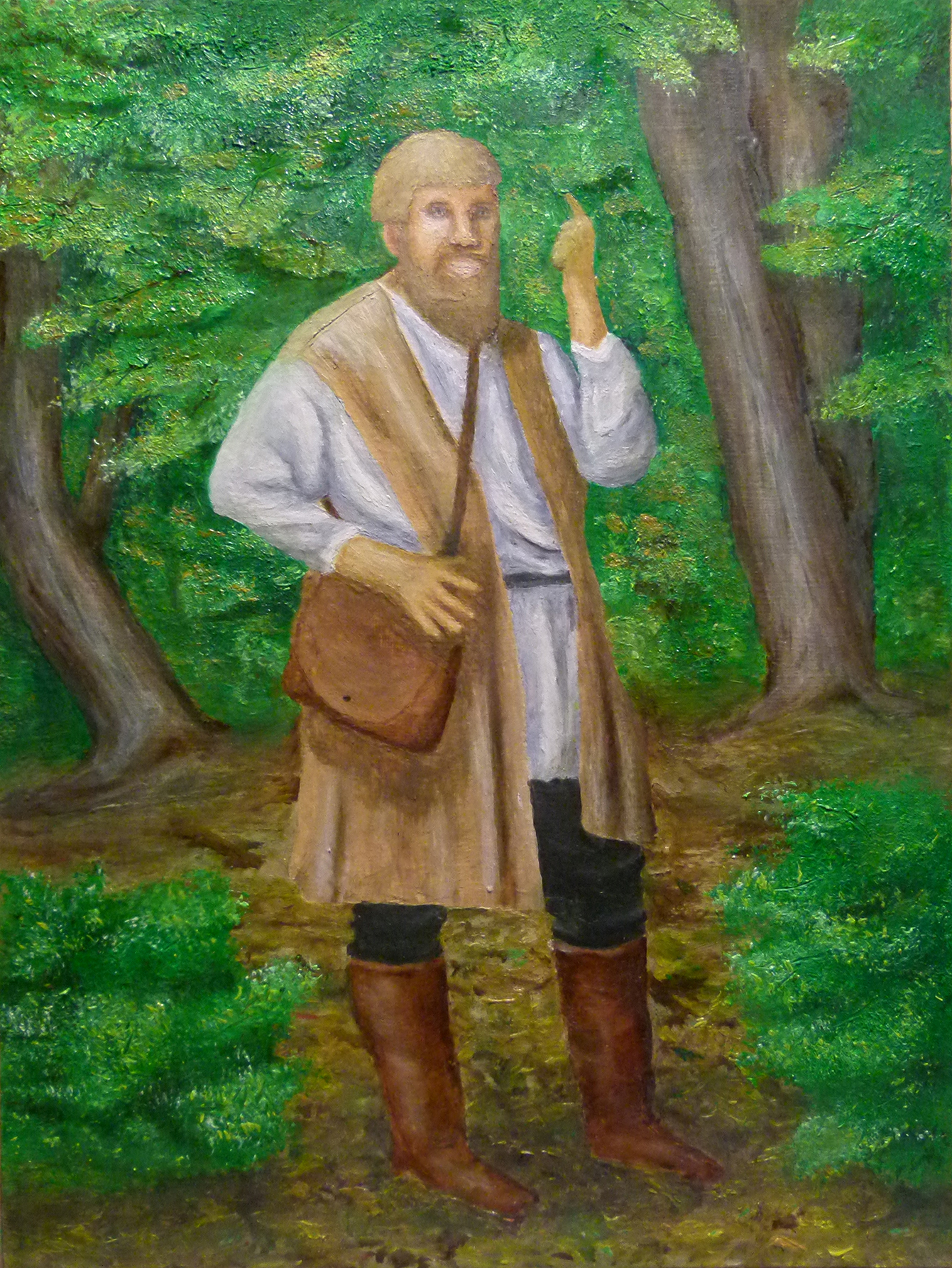 Oil painting of artist's conception of the Anabaptist leader Michael Sattler preaching in the woods. I, the creator of this work, release it to the public domain. Mikeatnip (talk) 01:30, 8 September 2011 (UTC)